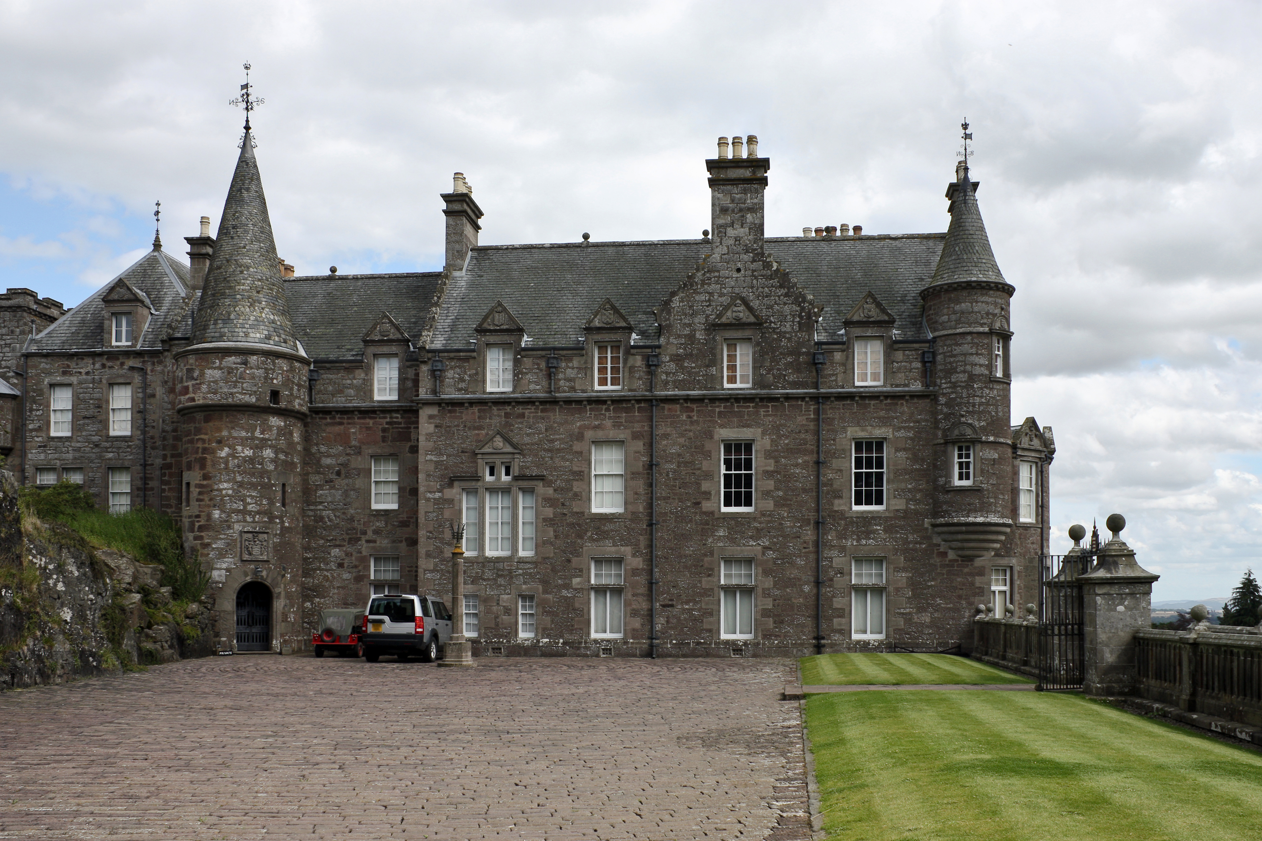 Drummond Castle: the mansion.